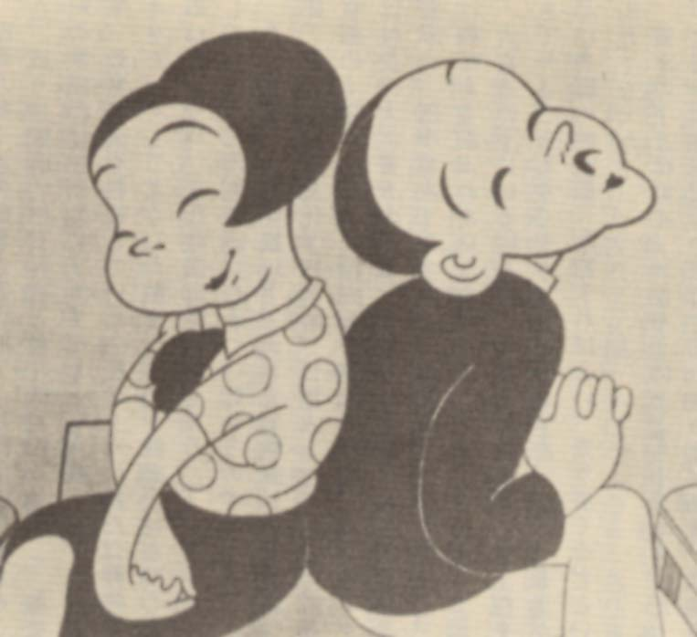 Screenshot from Chikara to Onna no Yo no Naka a 1933 anime short film by Kenzō Masaoka, released in Japan by Shochiku.